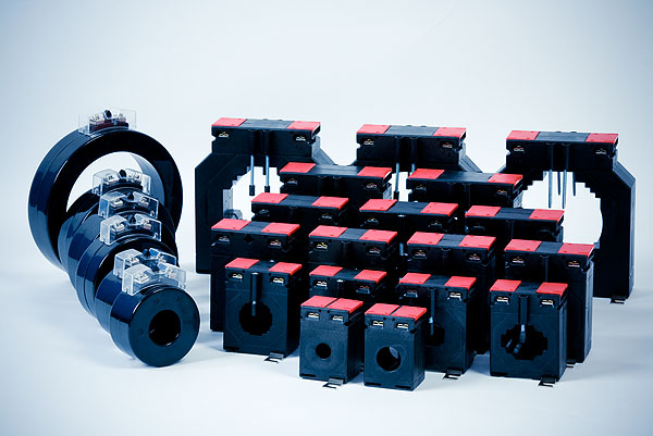 Low Voltage Ring Type & Plastic Case Current Transformers